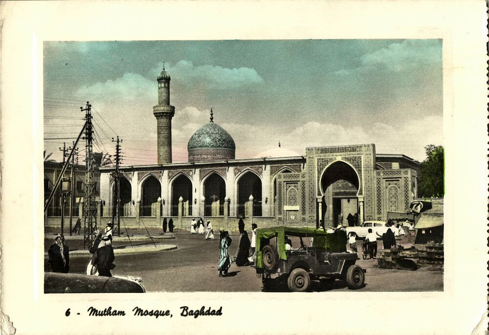 An outer view of Abu Hanifa mosque in Adhamiyah, Baghdad